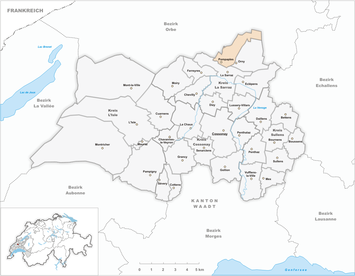 Municipality Pompaples